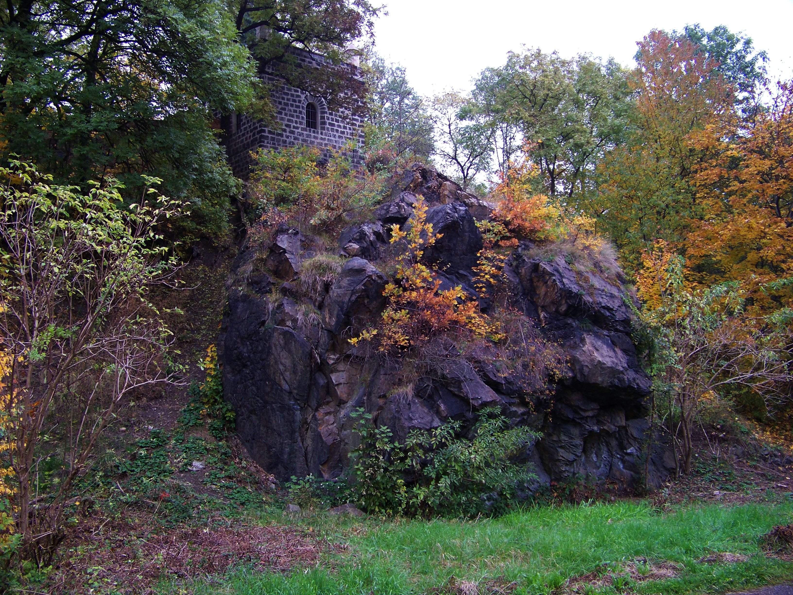 Prague-Hloubětín, the Czech Republic. U Slavoje street, Pražský zlom natural monument. - OpenStreetMap (Info)